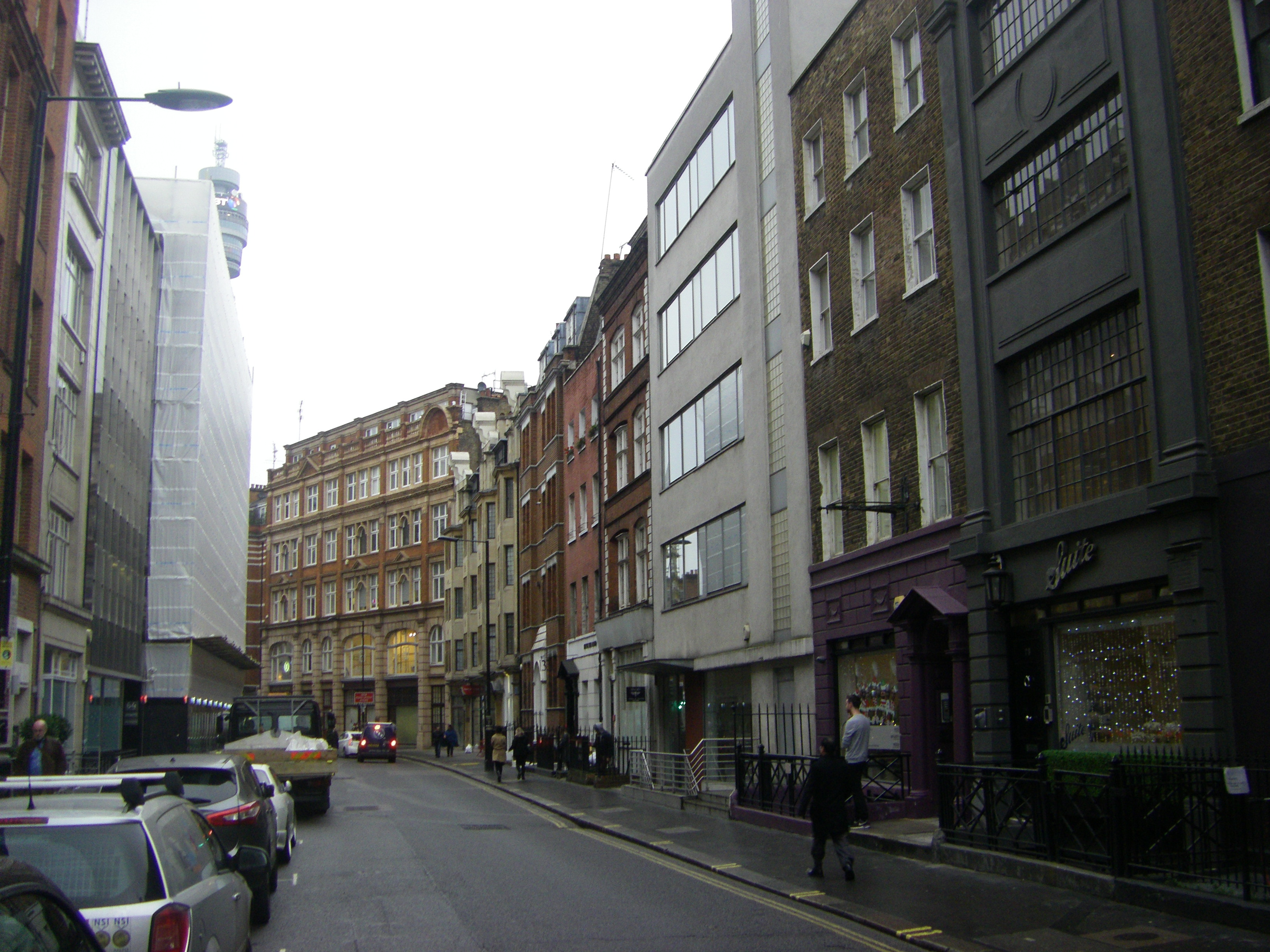 Newman Street in London, a by-road of Oxford Street. 64, Newman Street, the building on the left just before the one in scaffolding, was headquarters for British technology company Logica plc during the 1970s and 1980s.